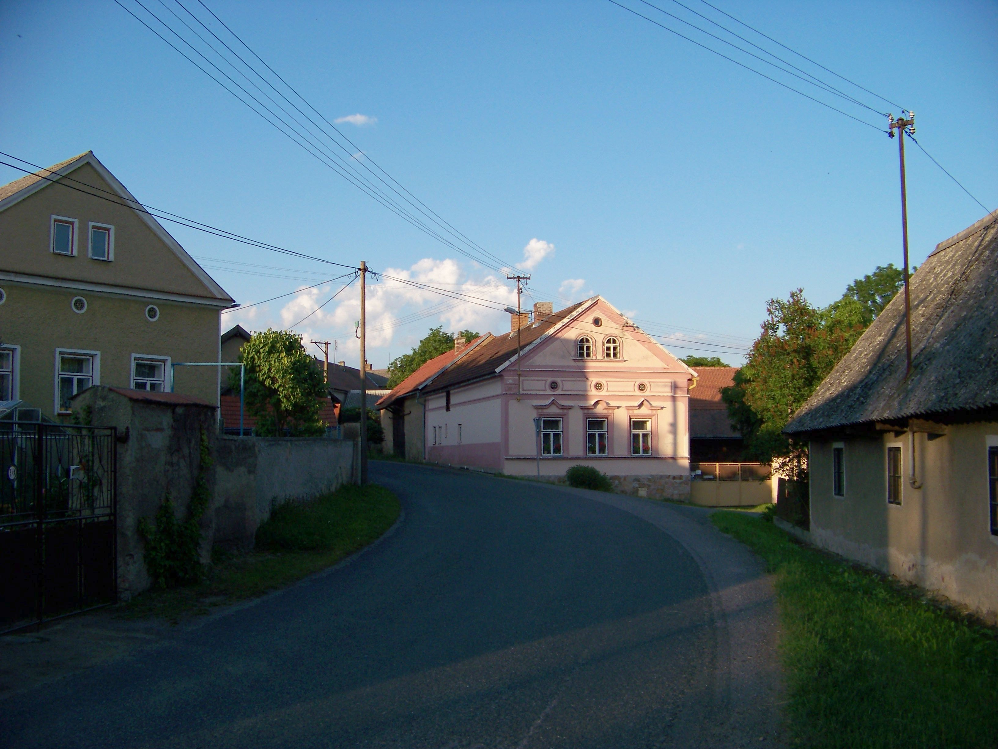 Milín-Stěžov, Příbram District, Central Bohemian Region, the Czech Republic. - OpenStreetMap(Info)